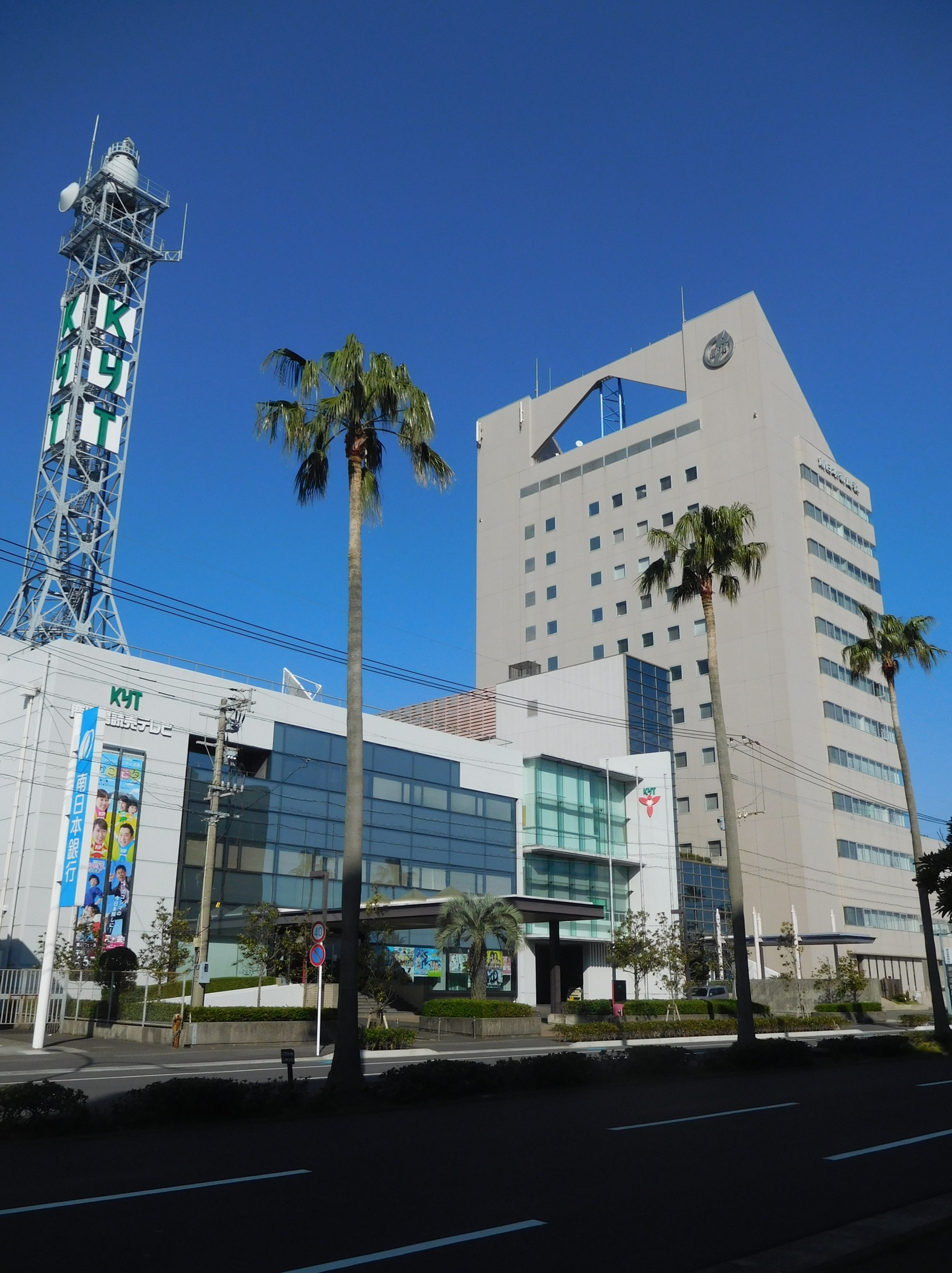 Headquarters of Kagoshima Yomiuri Television (KYT, left) and Minami-Nippon Shimbun (right), located in Yojiro, Kagoshima City, Japan.